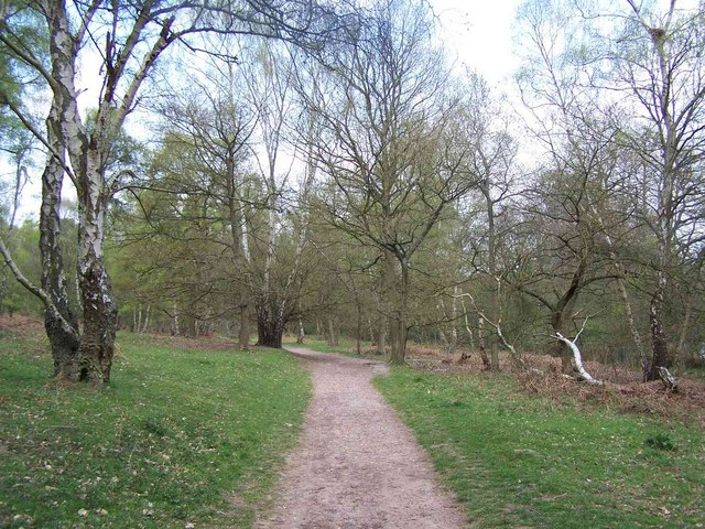 Abraham's Valley, Cannock Chase